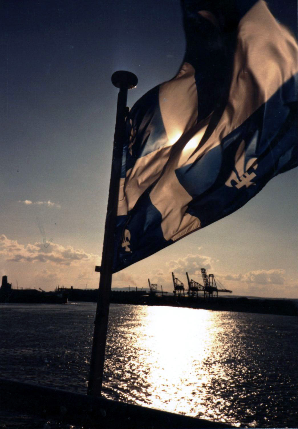 Quebec flag leads a ship to harbour near Quebec City